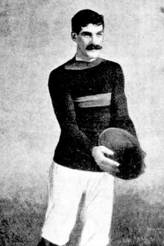 Photograph of Paddy Bourke from the 1910 Weekly Times Victorian Footballer Postcard Series